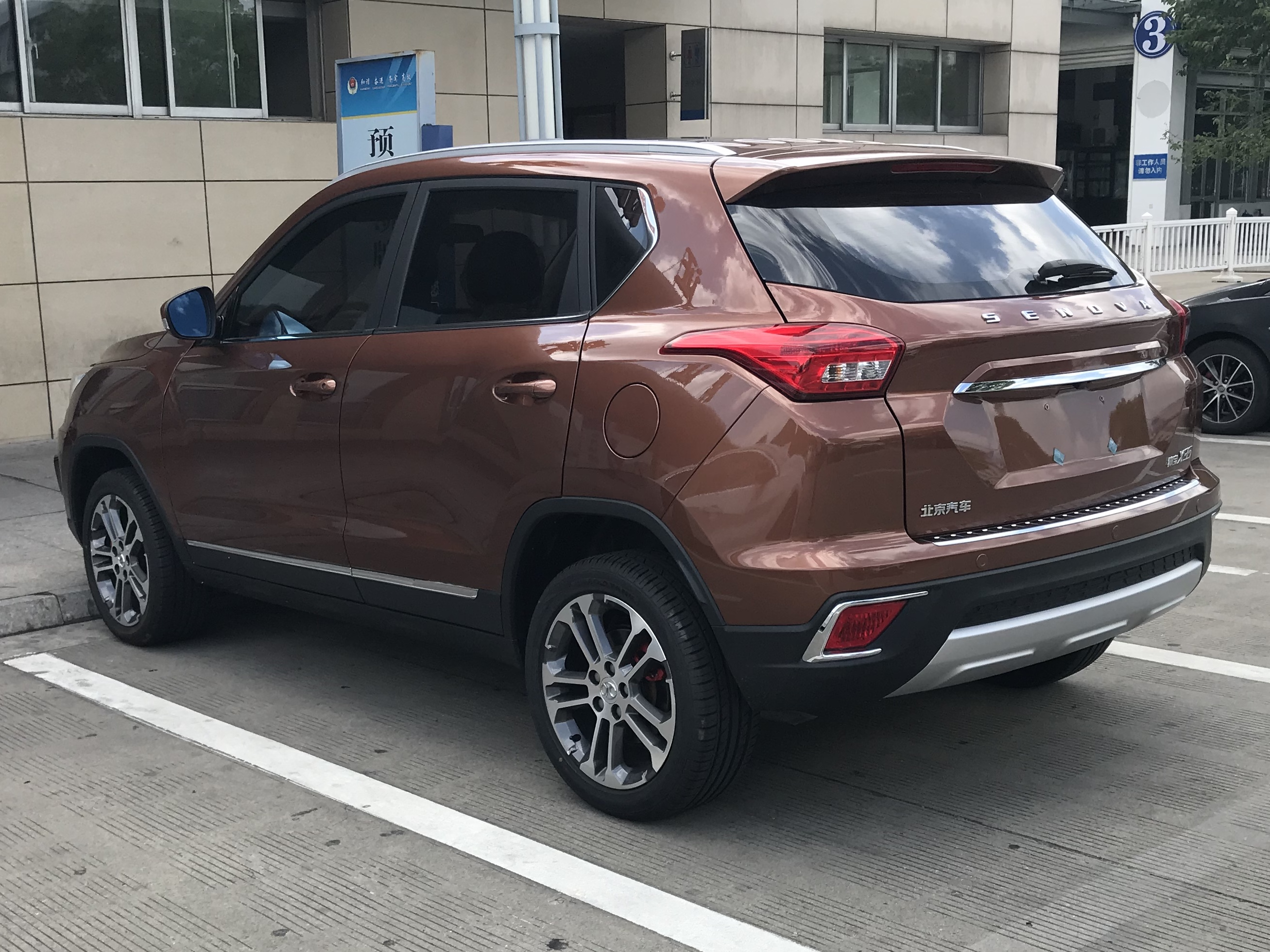 Senova X35